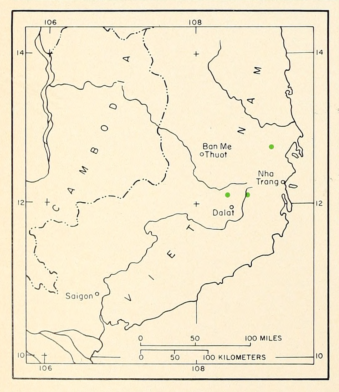 Map 2. Pinus krempfii distribution